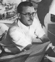 Germán Gelpi- Escenógrafo